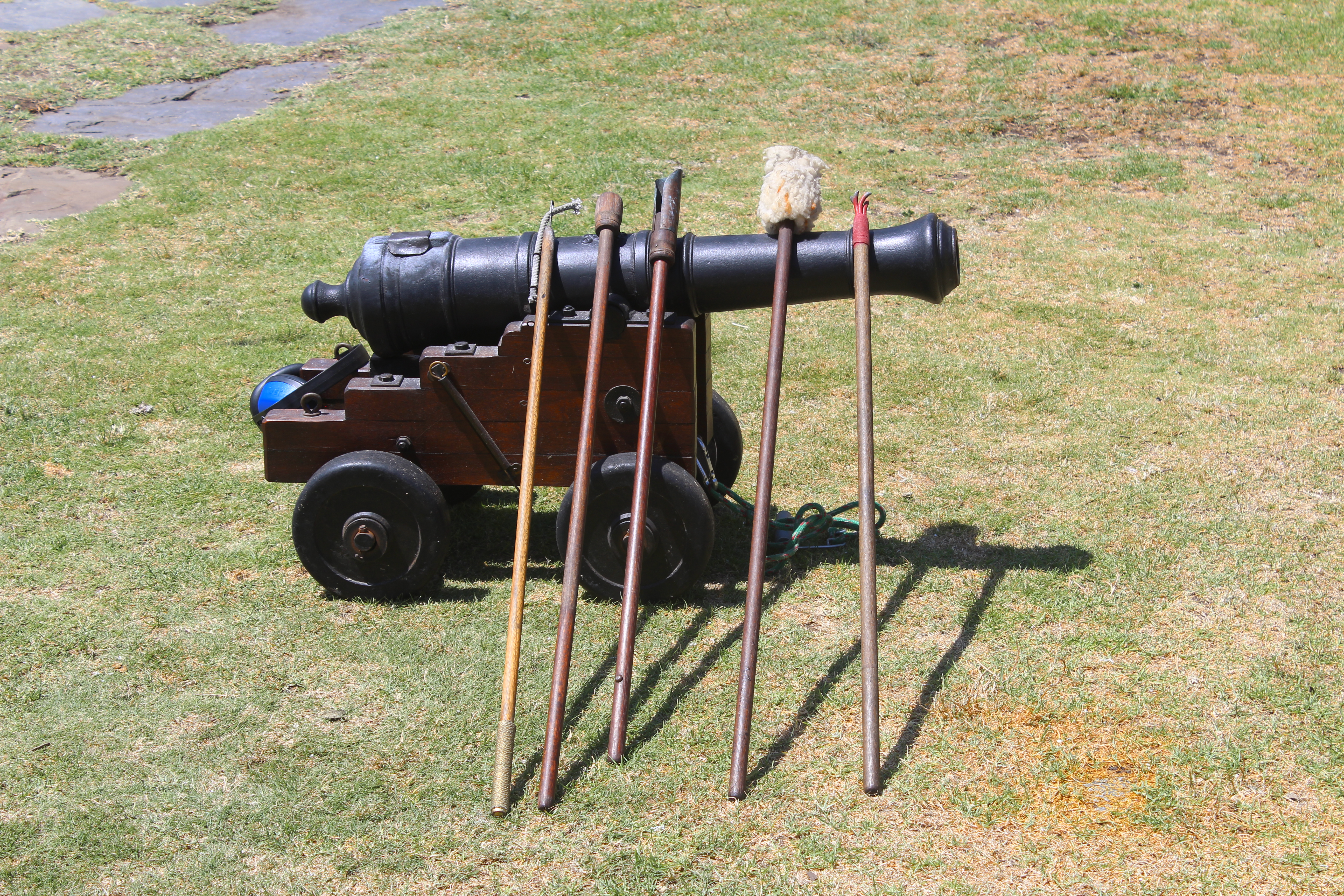 Eighteenth Century British two pound naval cannon and tools. The tools, from left to right, are: The botefeux is used to hold a fuse with which to fire the cannon. The rammer is used to drive home the powder and ball. The lantern or ladle carries the powder into the piece. The sponge is used to scour the cannon after discharge or before it is to be charged with fresh powder. A wad-screw is used to extract the wad from the breech. This photo was taken in the grounds of the Castle of Good Hope during a demonstration of the gun's operation.